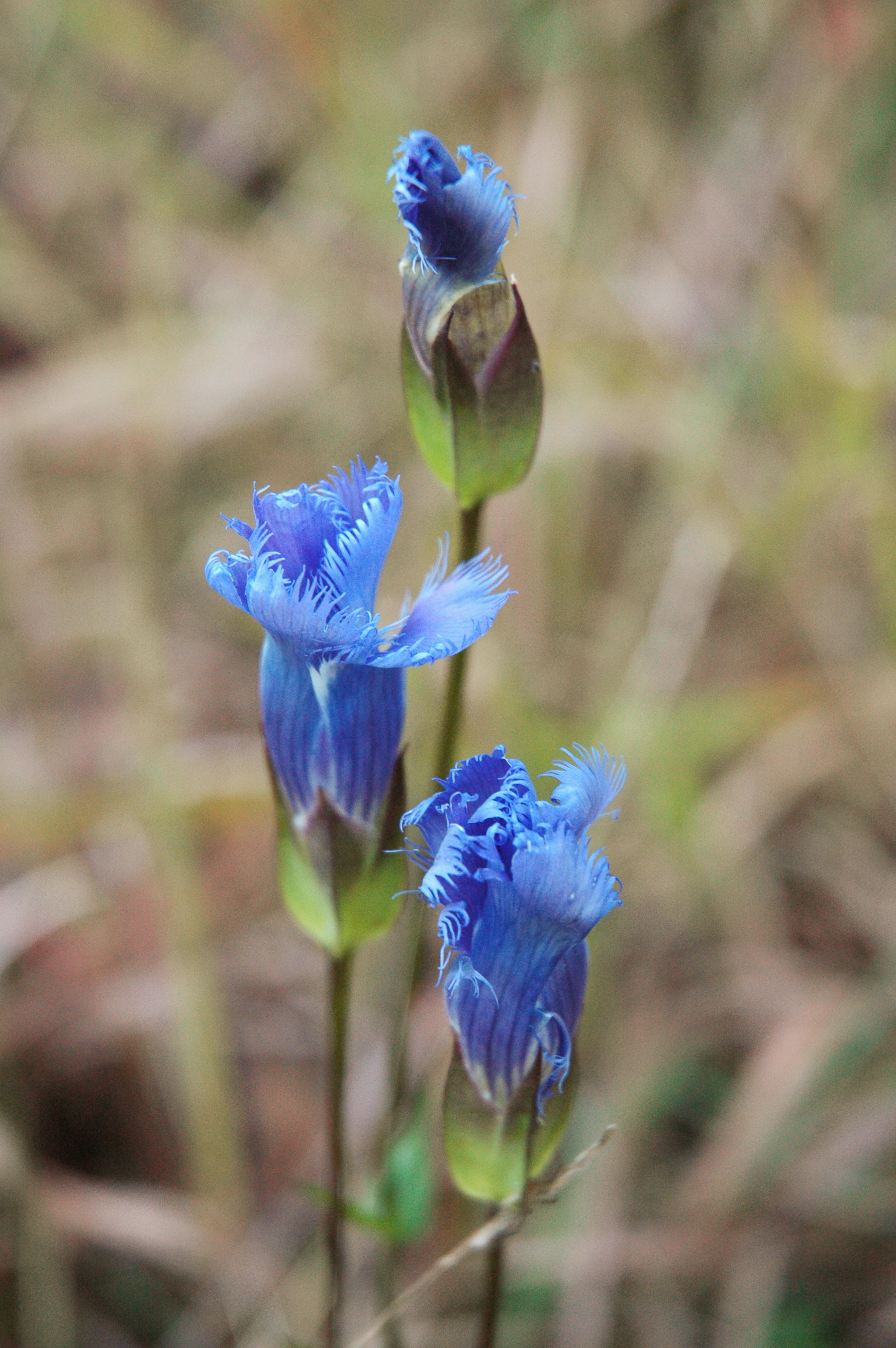 Fringed Gentian (Gentianopsis crinita) in Lancaster County, Pennsylvania